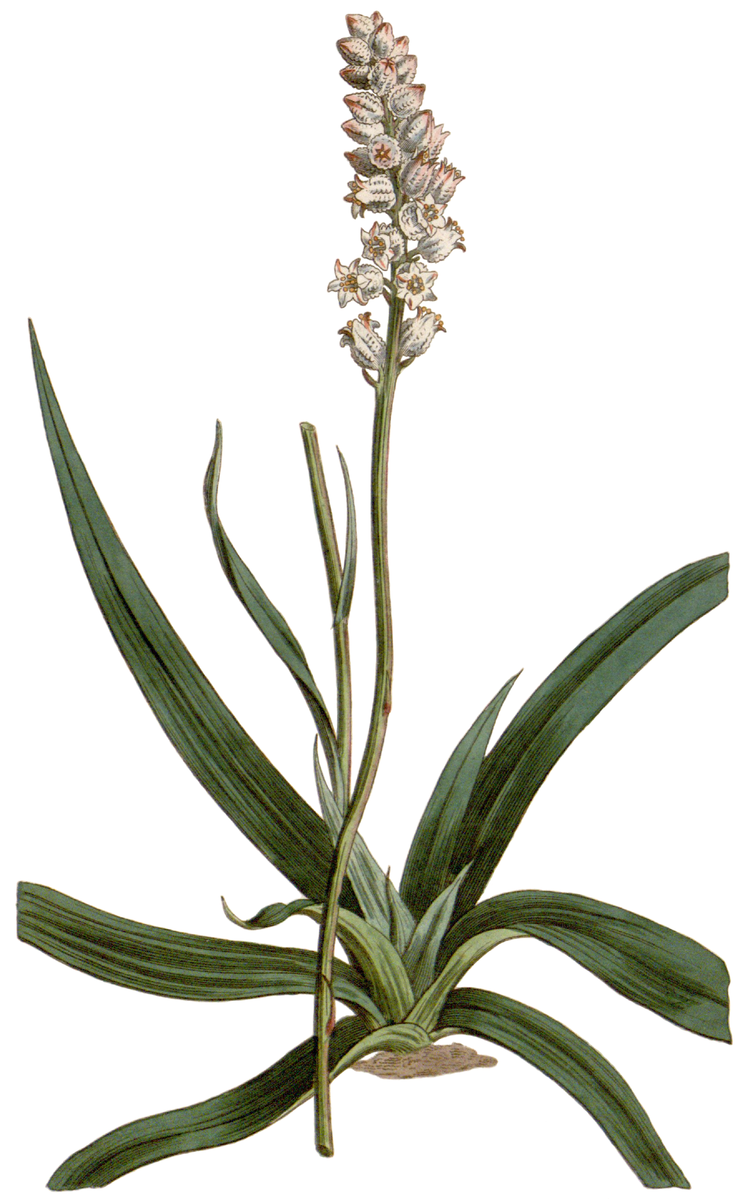 Aletris farinosa - White colicroot